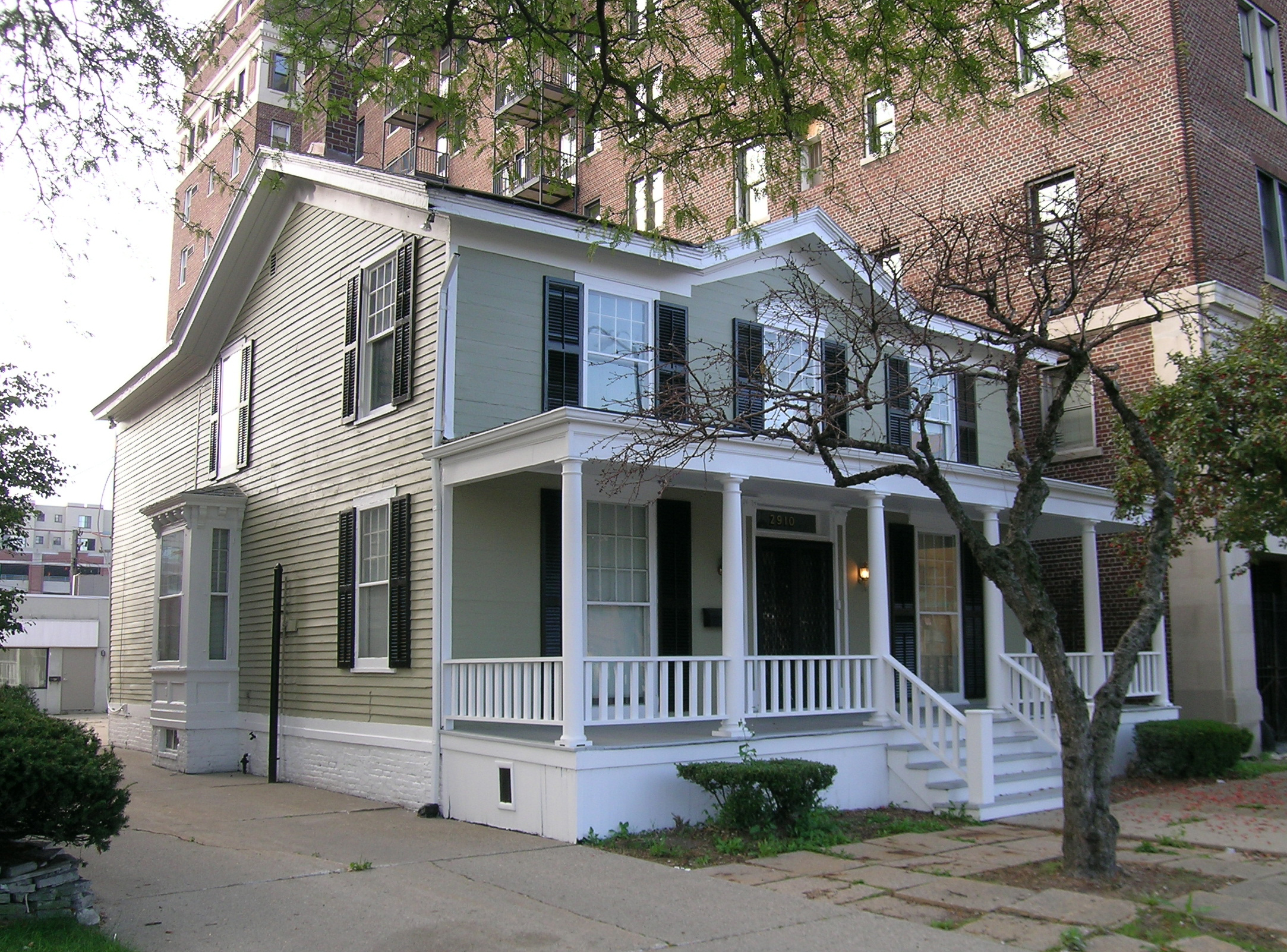 Campeau House on Jefferson Ave in Detroit MI